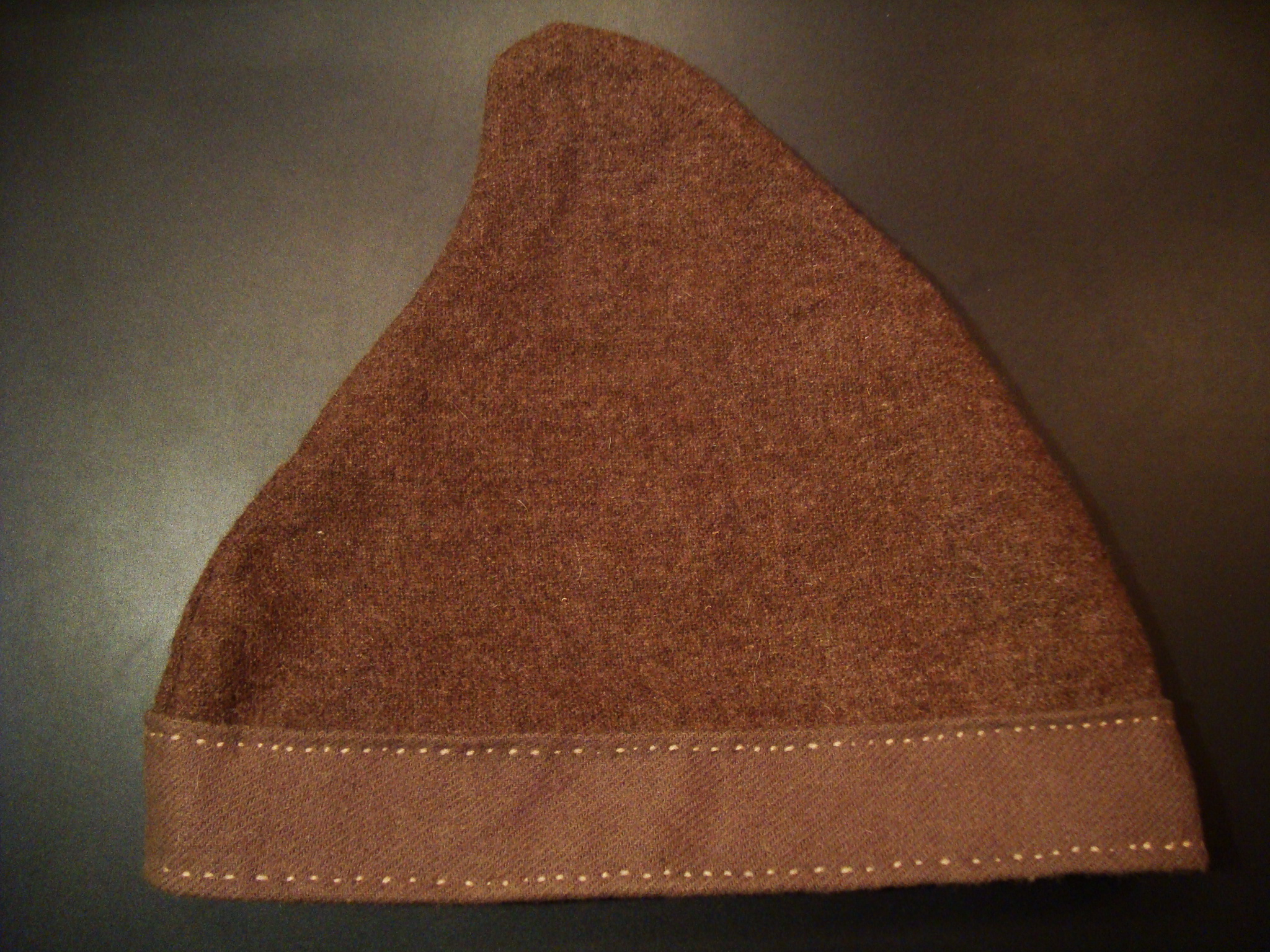 Phrygian cap in modern usage, fashion cap